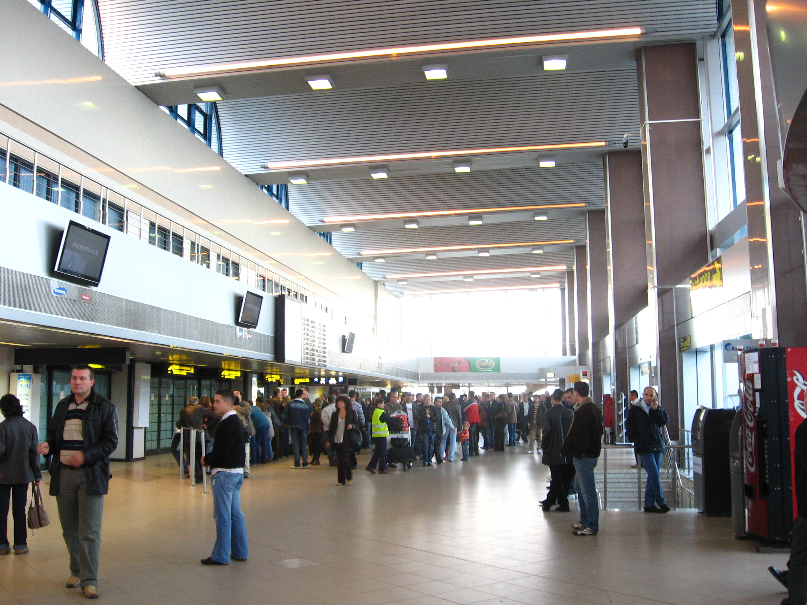 Arrival hall at Henri Coanda International Airport